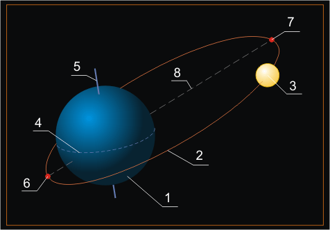 Apogee, perigee, apside line scheme. 1- Earth, 2- satellite orbit, 3- satellite, 4- Earth equator, 5- rotation axis, 6 - perigee, 7 - apogee, 8- apside line.